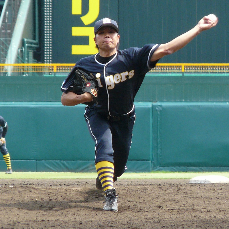 Masanori Fujihara, pitcher of the Hanshin Tigers, at Hanshin Koshien Stadium.